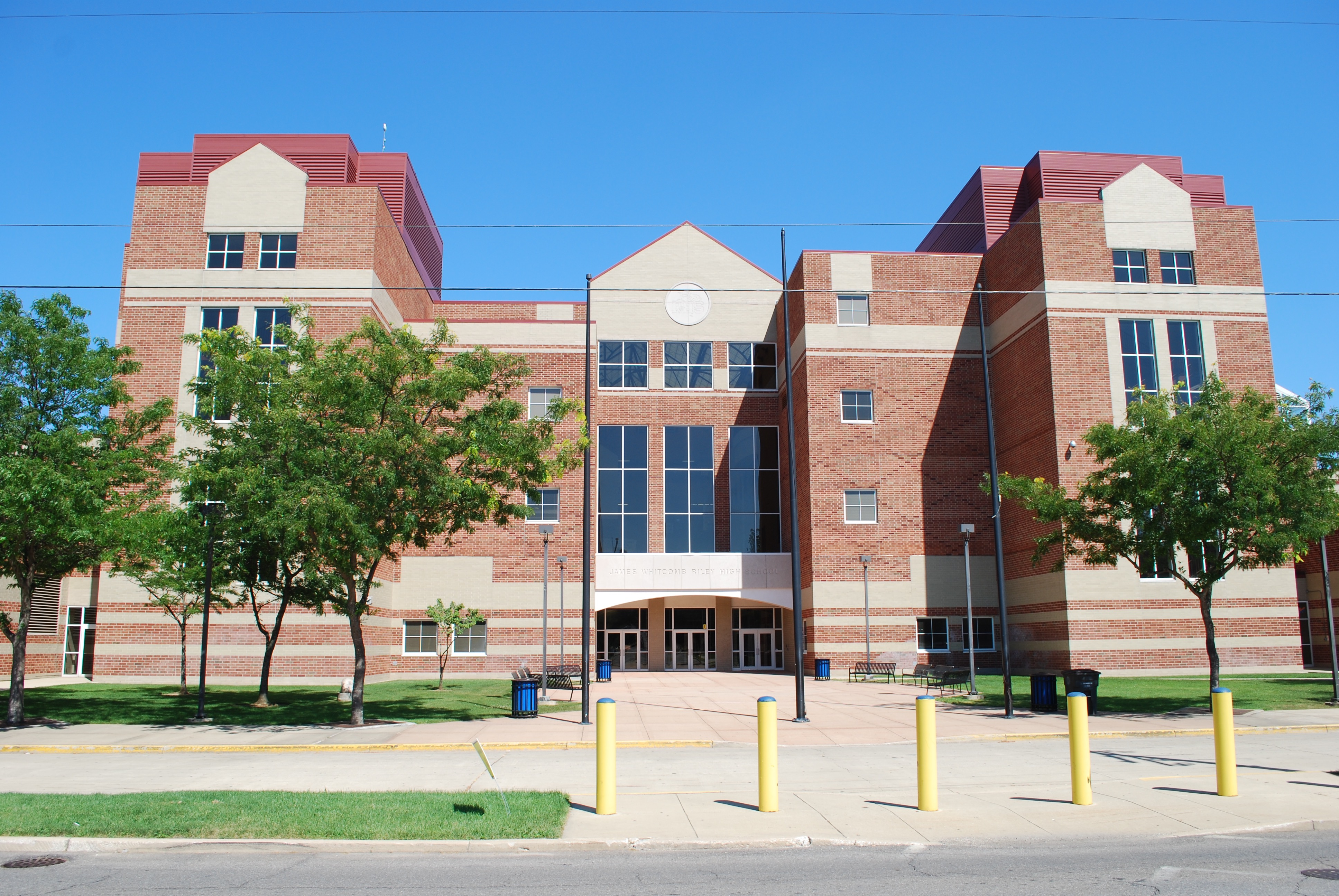 The main entrance to Riley High School in South Bend, Indiana. Photo taken 30 July 2015.